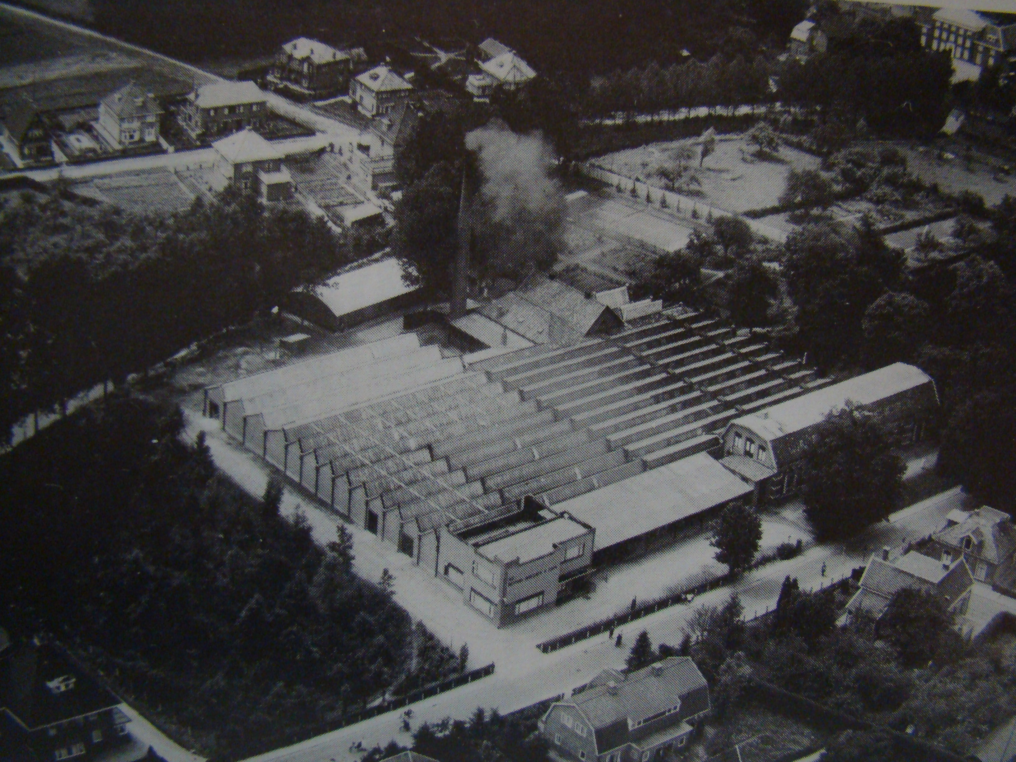 Driessen, Aalten